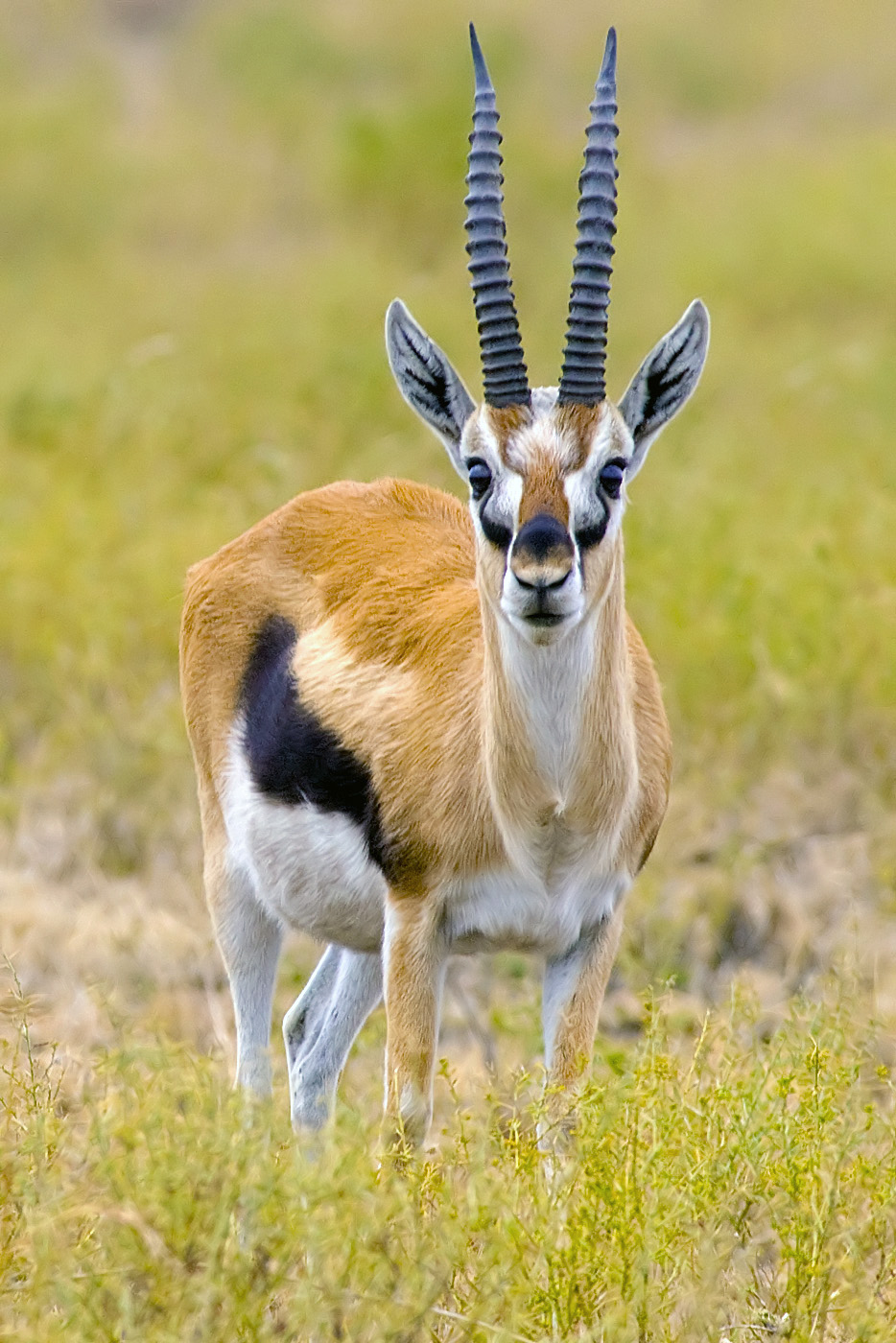 Thomson's gazelle